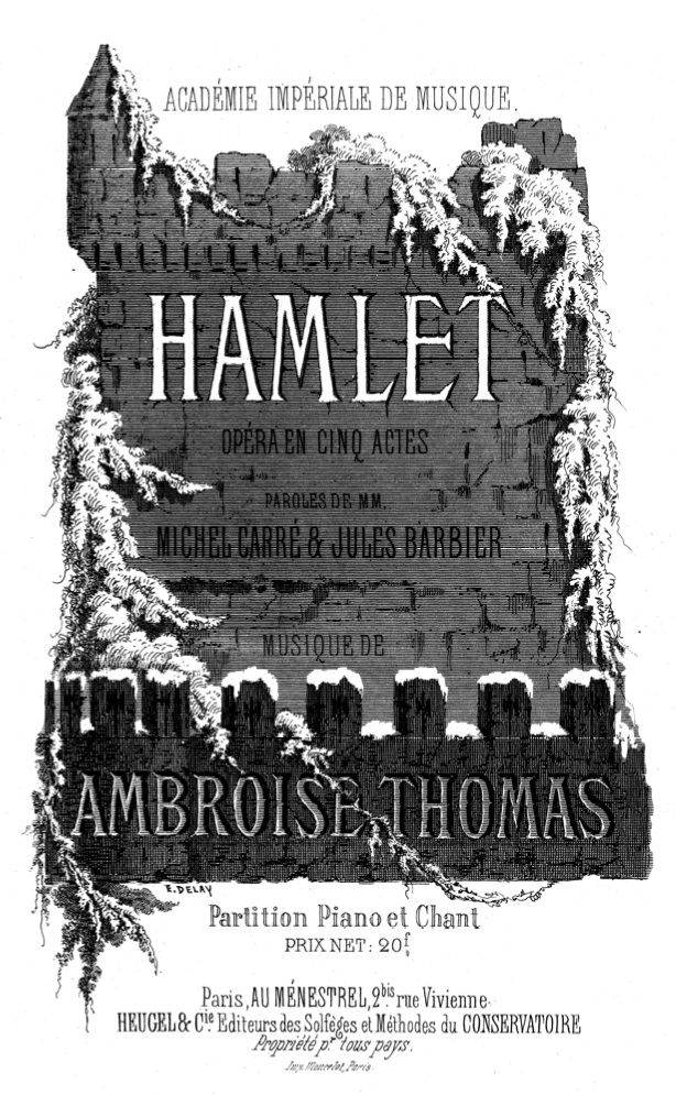 Cover of the piano-vocal score of the opera Hamlet by Ambroise Thomas.